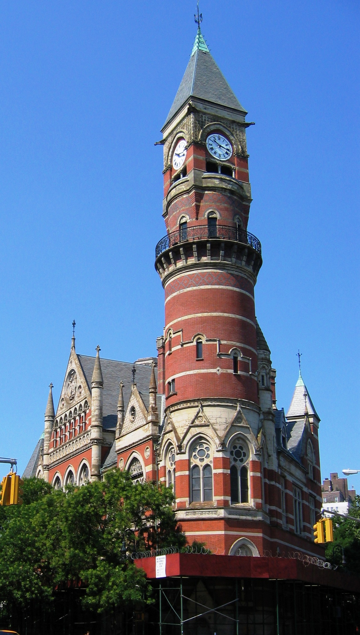 Jefferson Market Library in Greenwich Village, New York City, USA